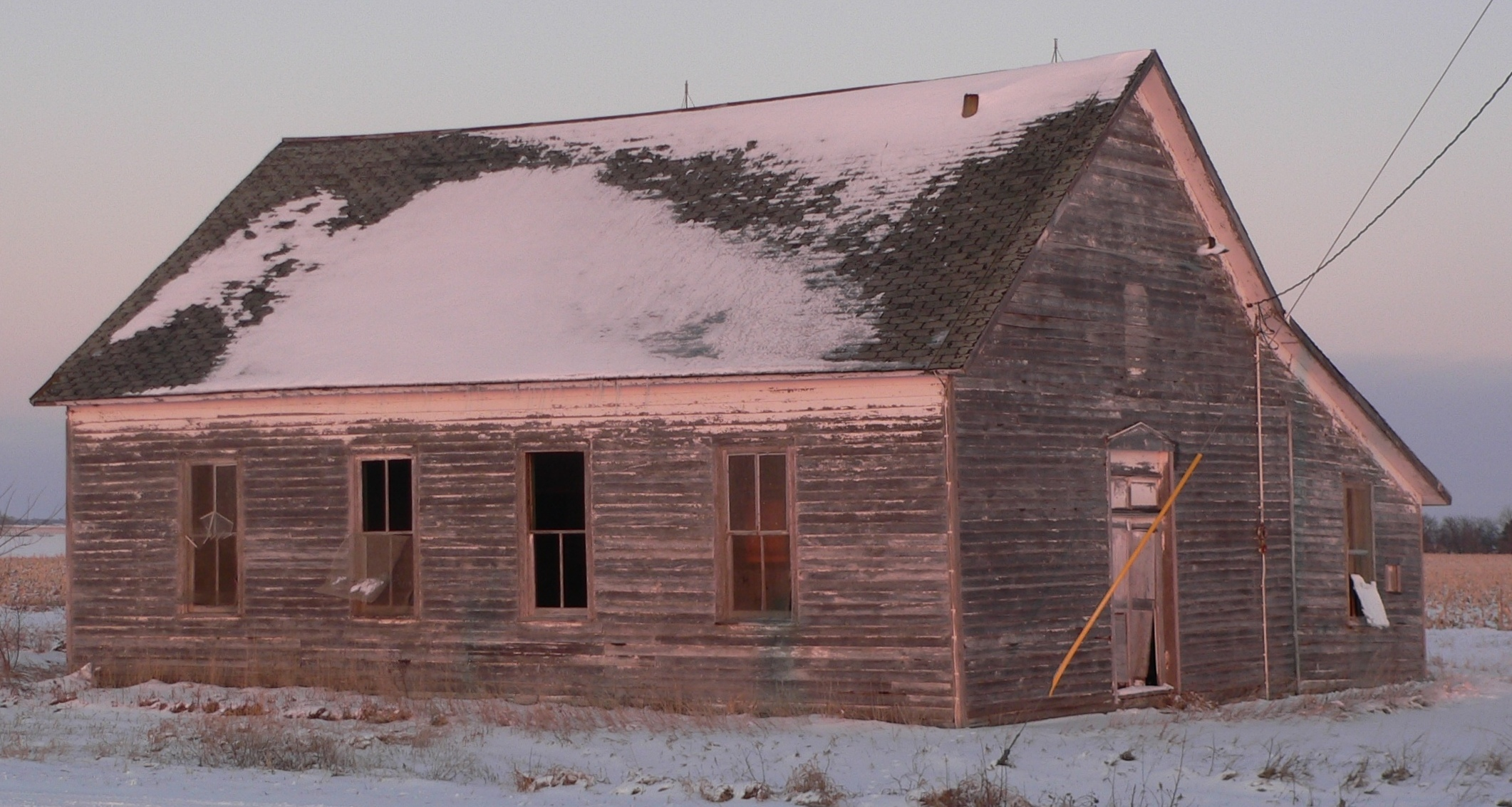 Brush Creek Hall, or Telocvicna Jednota Sokol, located on northeast corner of county roads 1800 and Q in Saline County, Nebraska; seen from the southwest.